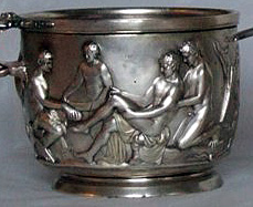 Crop to illustrate Warren Cup comparison.